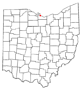 Locator map of Sandusky, Ohio.